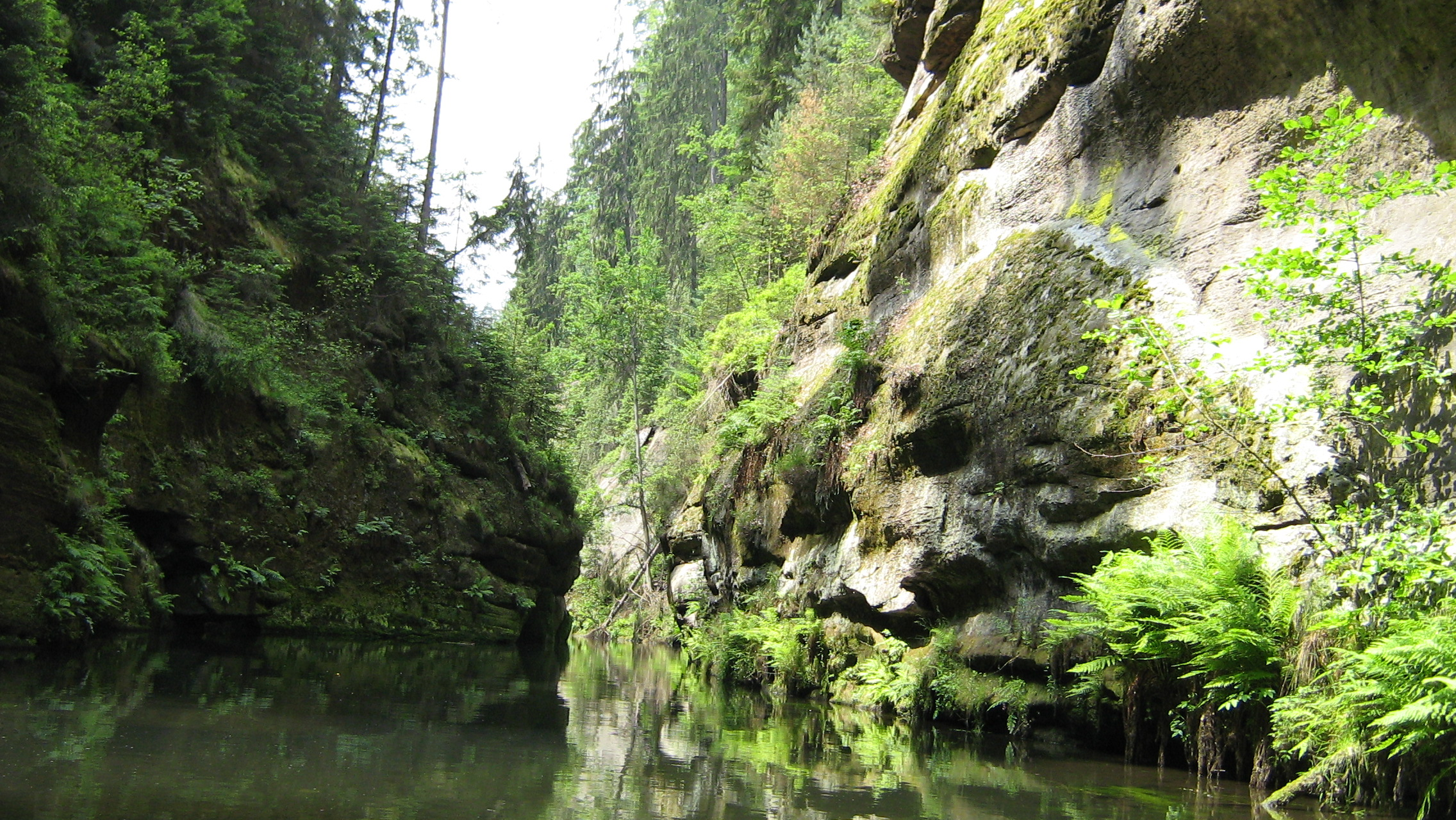 The River Kamenice in Bohemian Switzerland